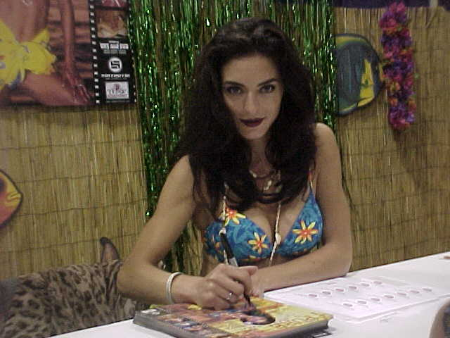 Rebecca Lord at the AVN Adult Entertainment Expo on July 9, 1999